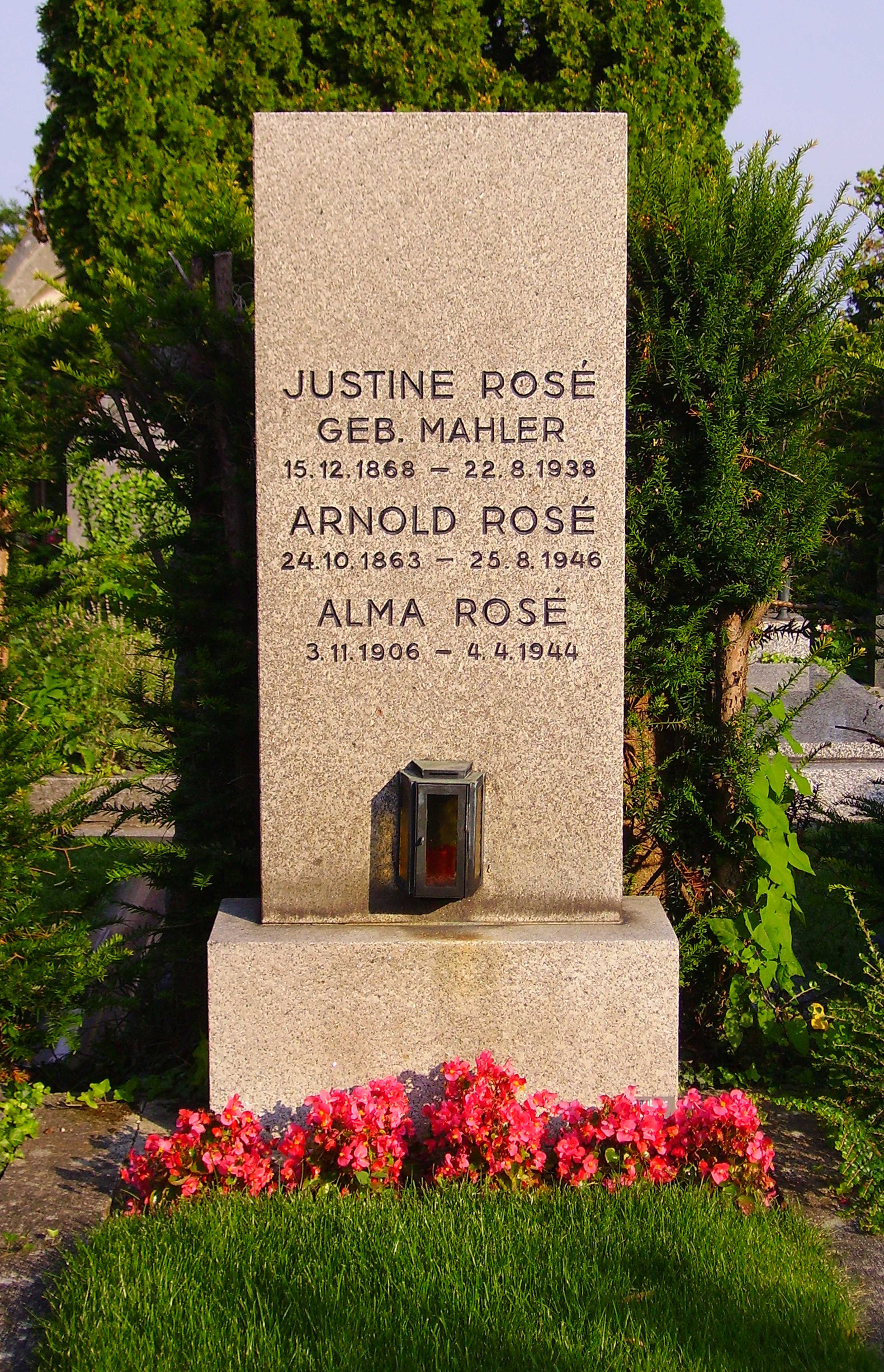 Grave of Justine and Arnold Rosé in Vienna, Grinzing Friedhof, with an inscription for Alma Rosé